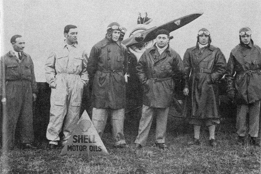 Participants at the Romanian air raid in Africa, October-November 1933: aviators Dumitru Ploeșteanu, Petre Ivanovici, George Davidescu, Alexandru Cernescu, Maximilian Manolescu and Mihail Pantazi